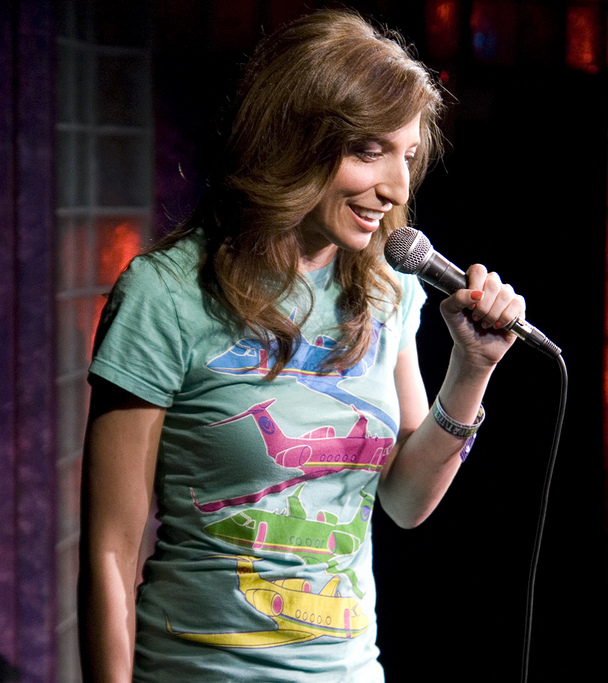 Chelsea Peretti at SXSW Comedy Fest 2010